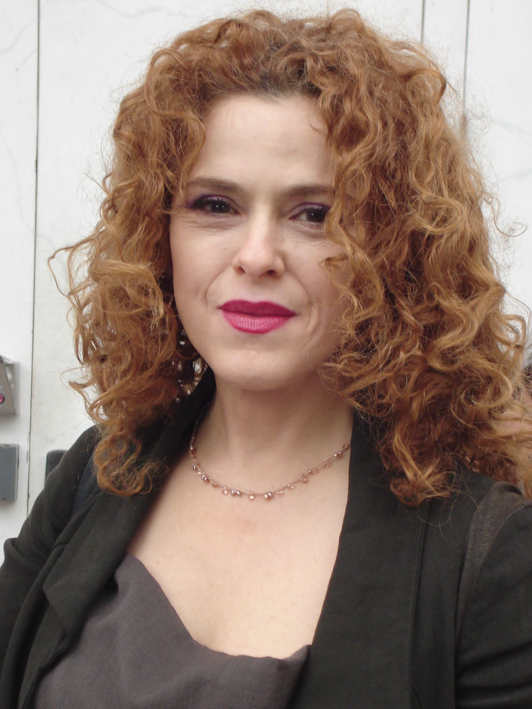 Bernadette Peters at Kennedy Center after final performance of "Follies", June 19, 2011